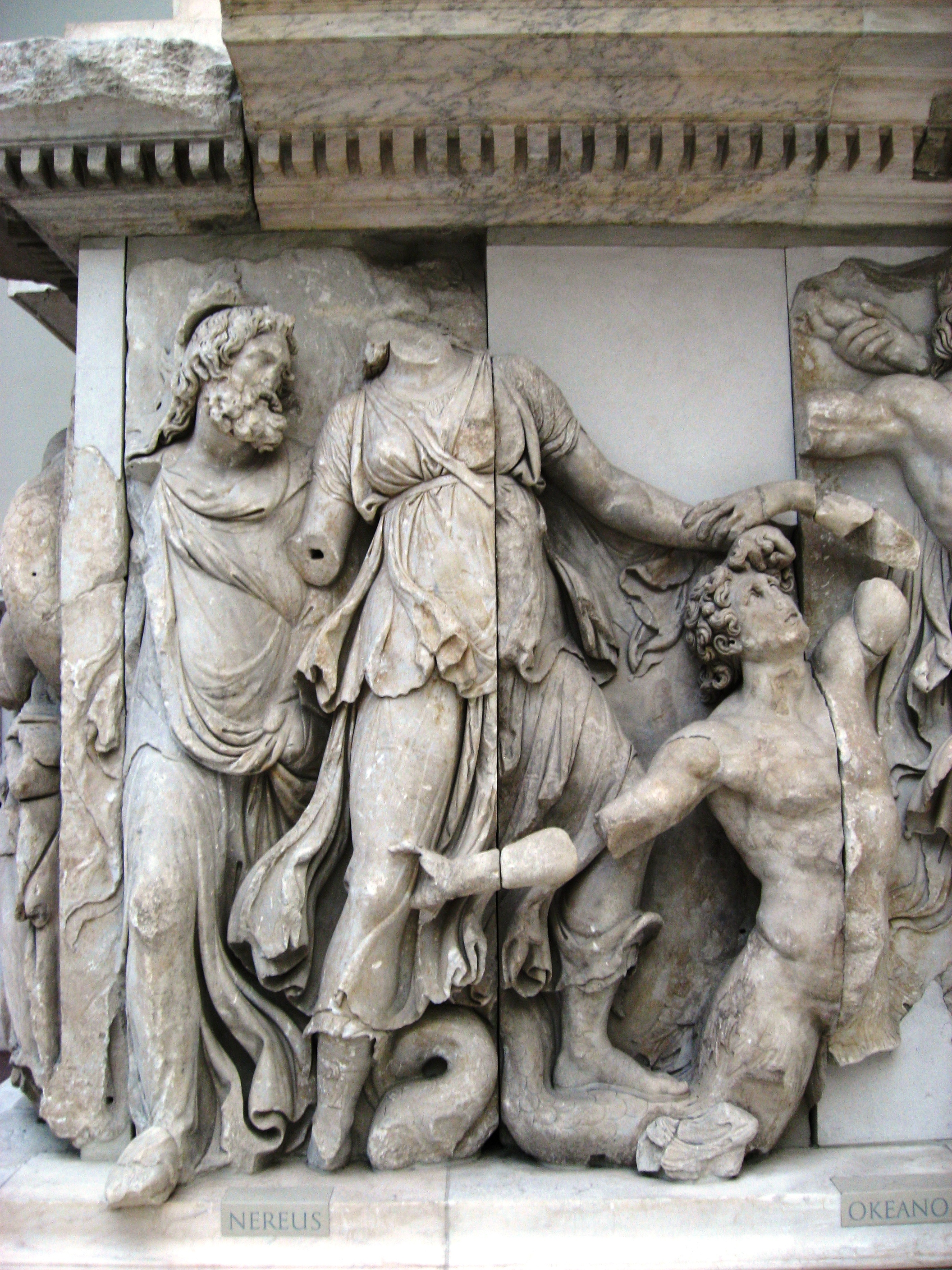 part of the Gigantomachy frieze of the Pergamon Altar